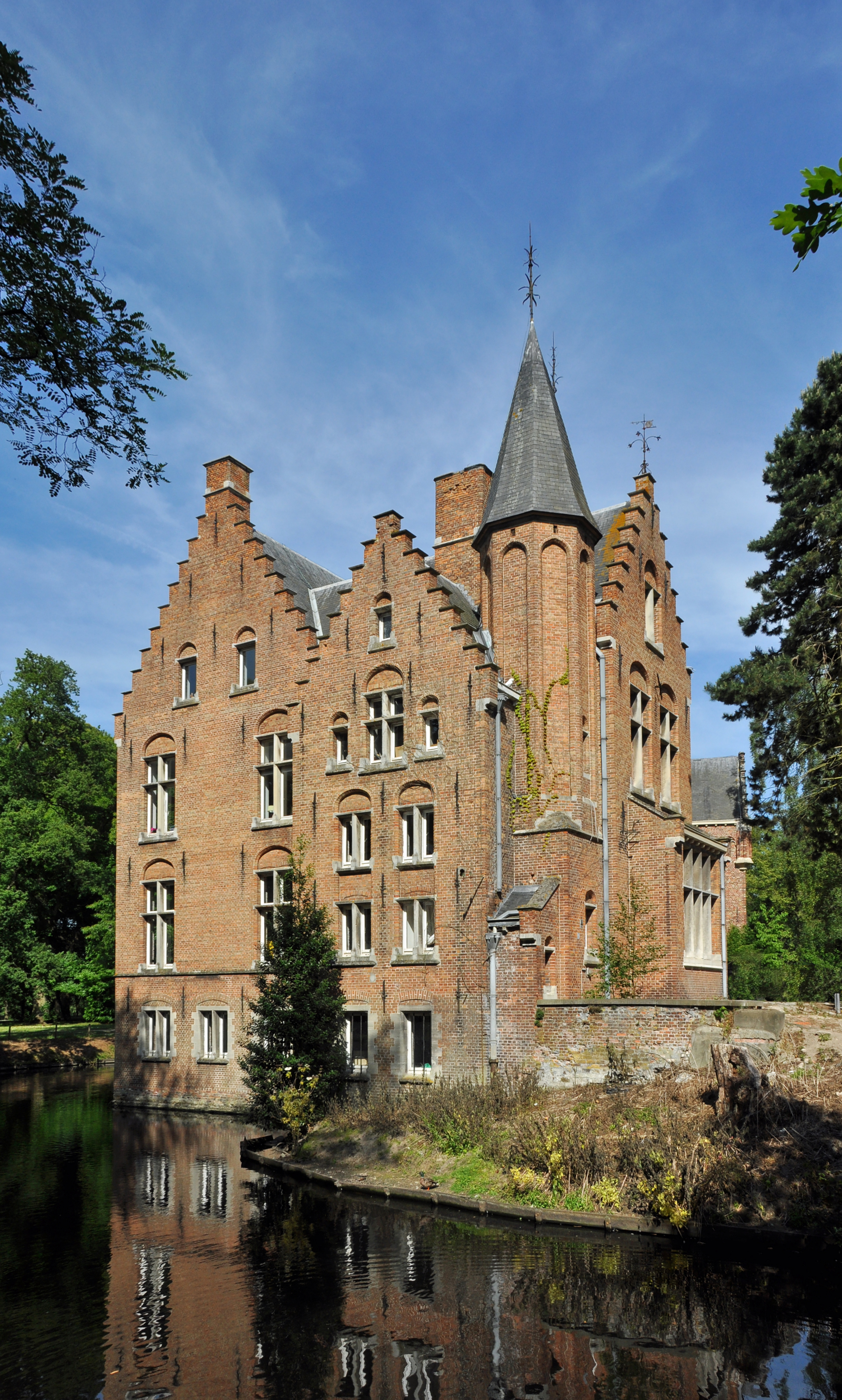 Sint-Andries (Bruges, Belgium): Koude Keuken manor